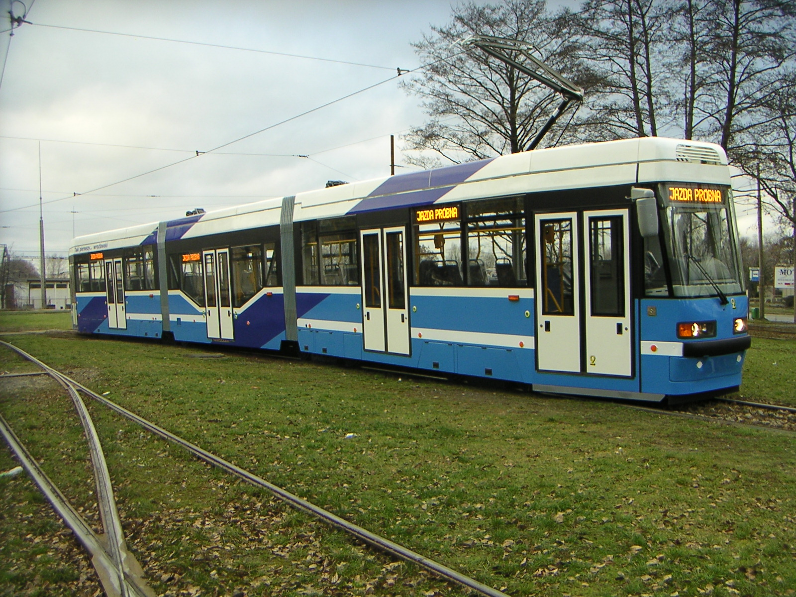 Protram 205WrAs tram